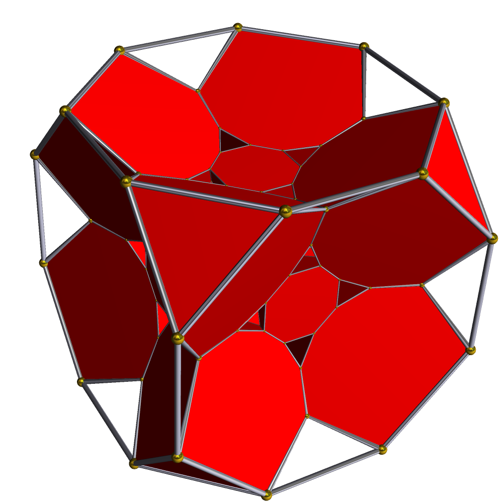 Bitruncated_24-cell image